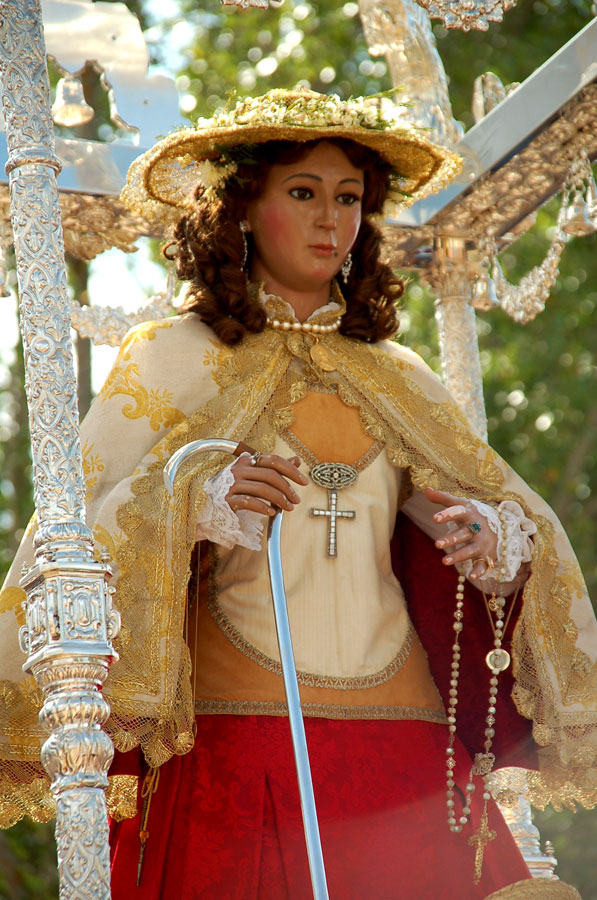 Virgen de Guaditoca